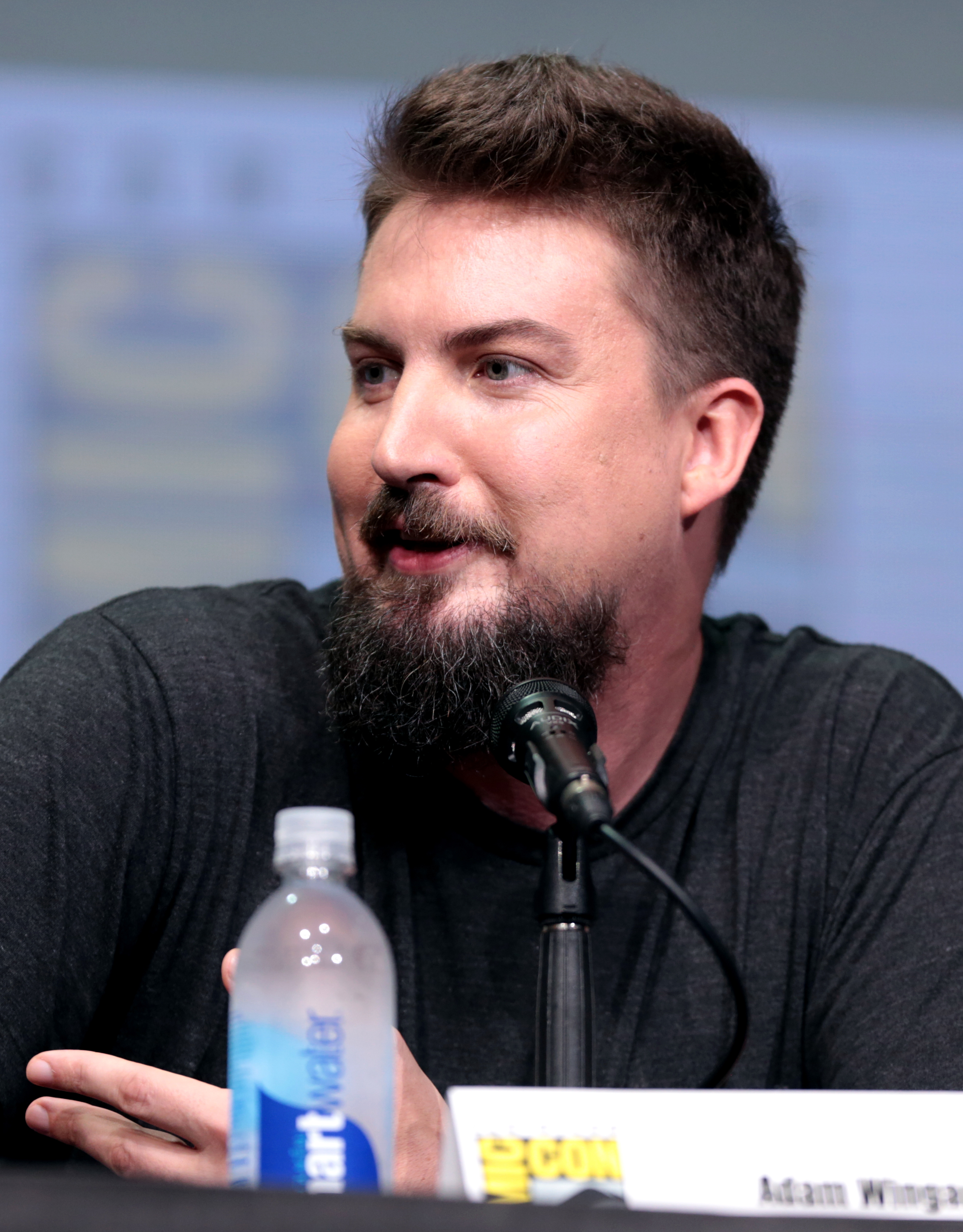 Adam Wingard speaking at the 2017 San Diego Comic-Con International in San Diego, California.